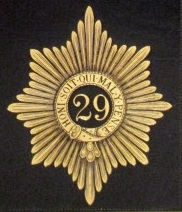 29th (Worcestershire) Regiment of Foot Crest